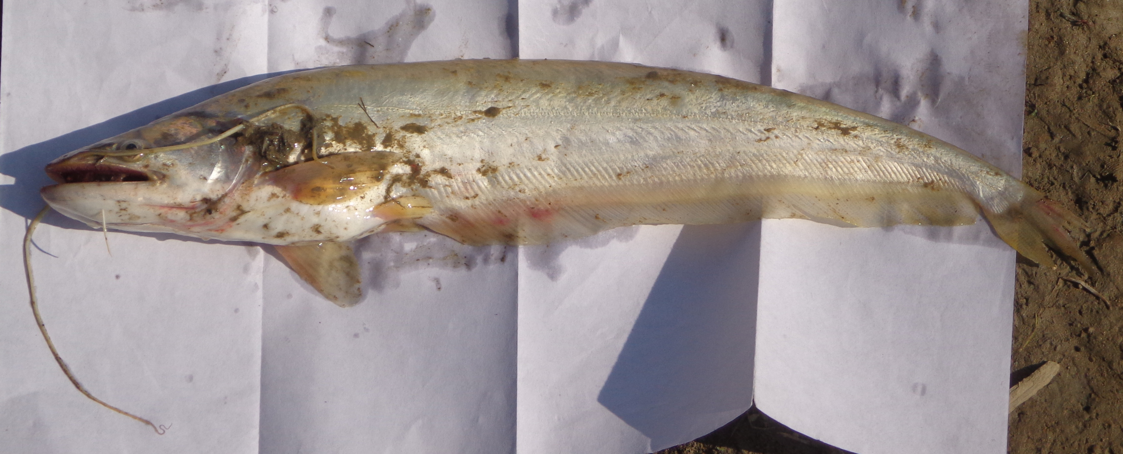 Wallago attu at Mohangonj, Netrokana, Bangladesh.